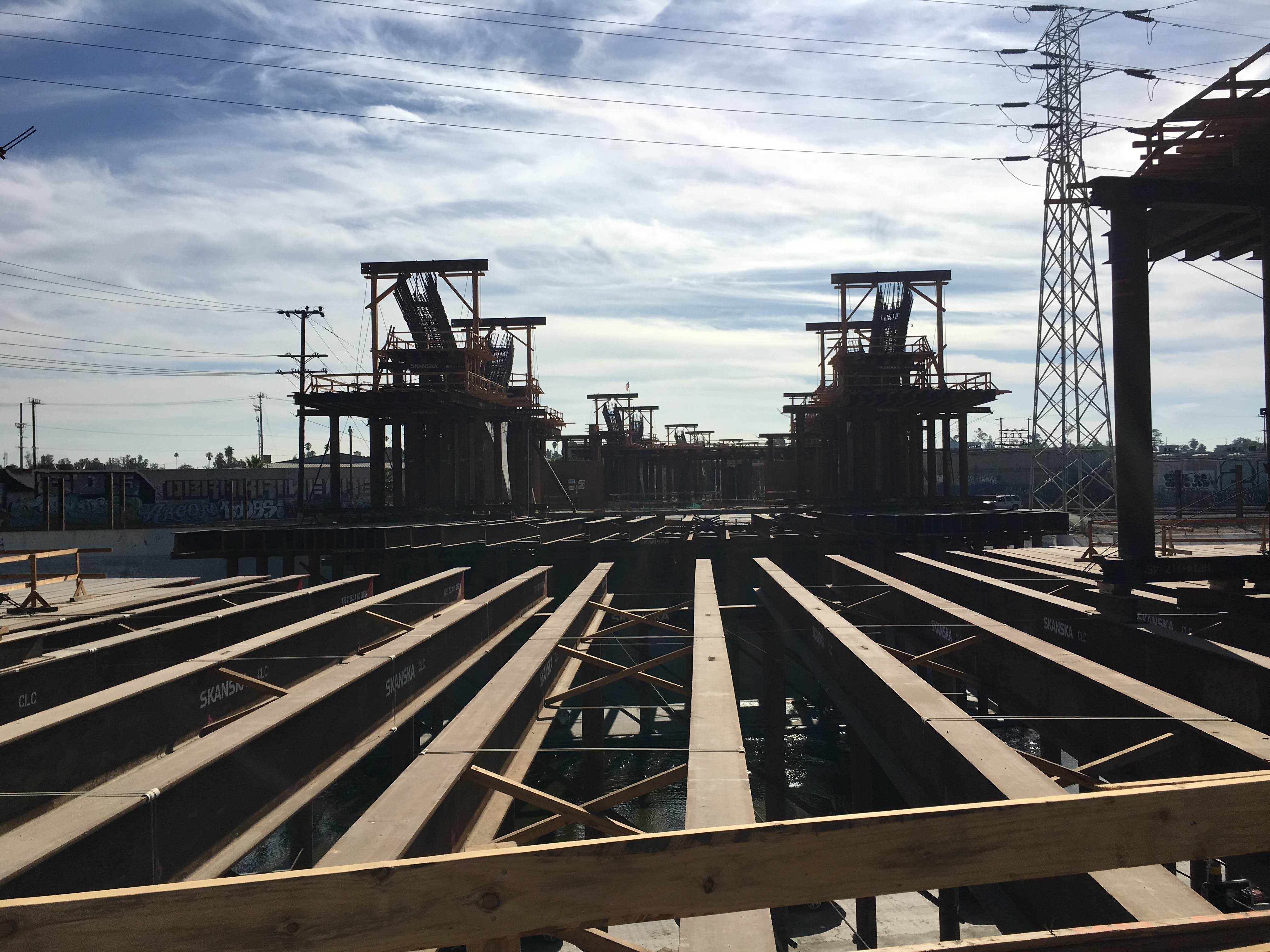 First stages of Sixth Street Falsework looking east over the LA River.